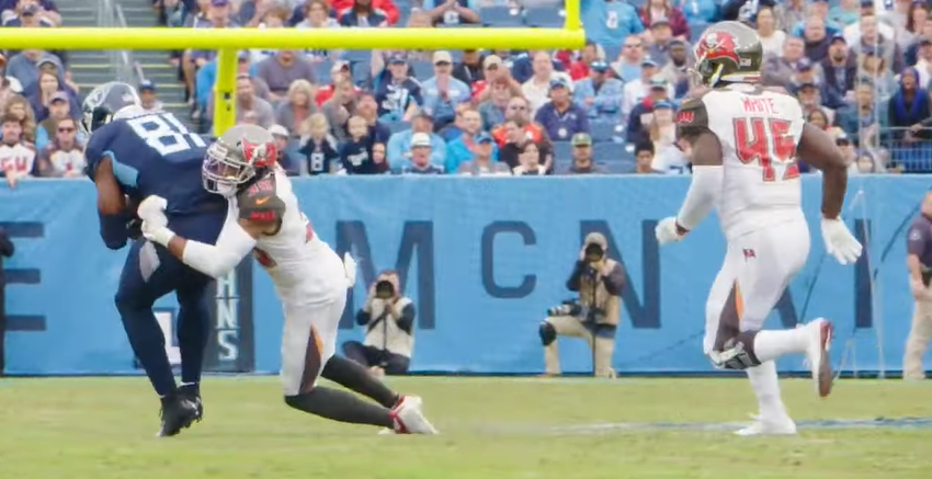 Andrew Adams 2019. Image from video Titans Mic'd Up vs. Bucs (Week 8) | Sounds of the Gamee, ~ 02:15.